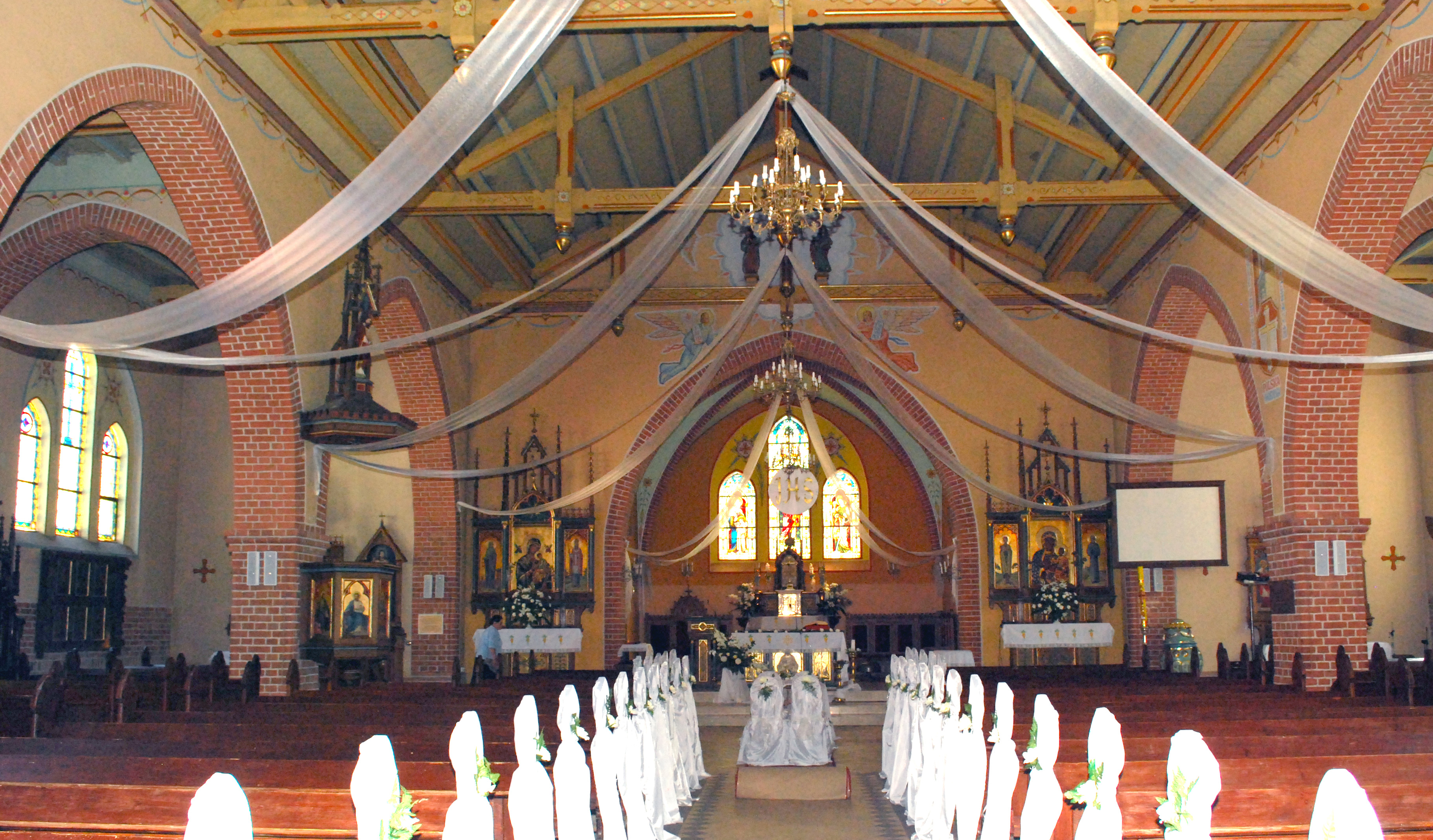 Saint Anne church in Sztum, Poland